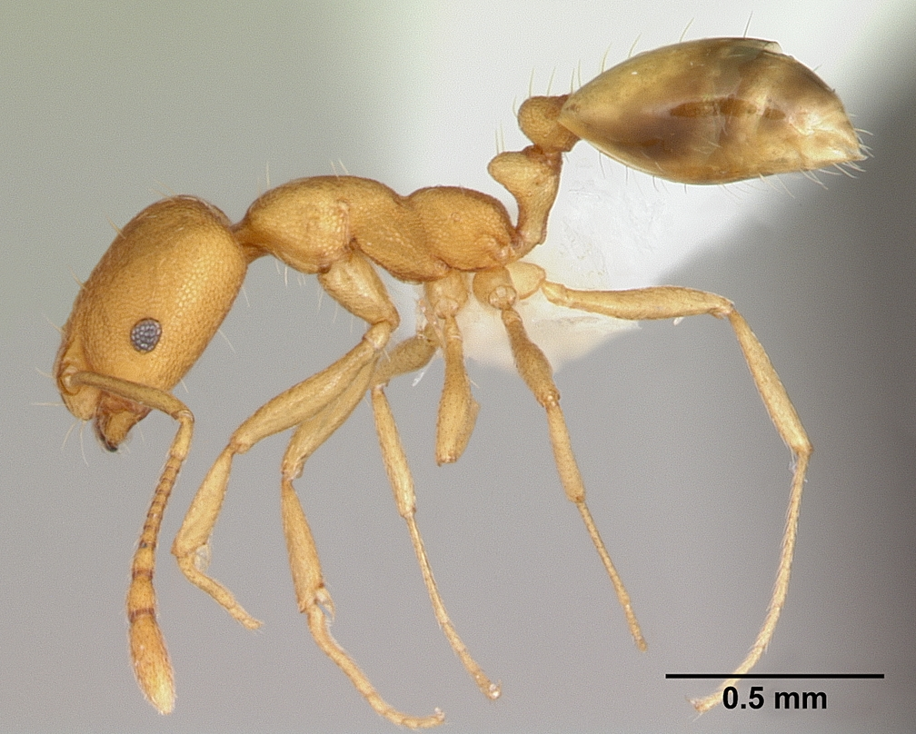 Profile view of ant Monomorium pharaonis specimen casent0173986.